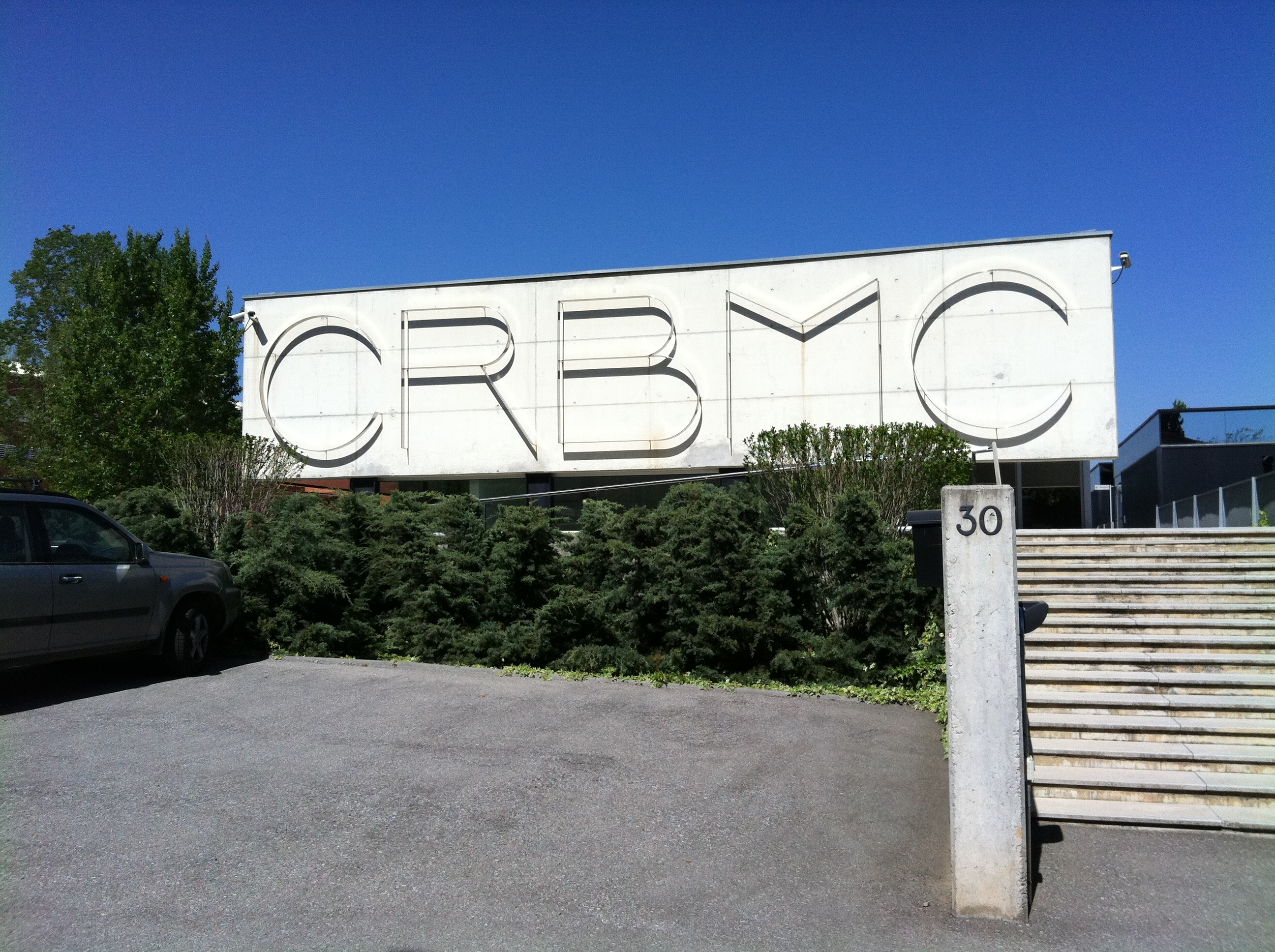 entrance to the conservation-restoration center of Catalonia